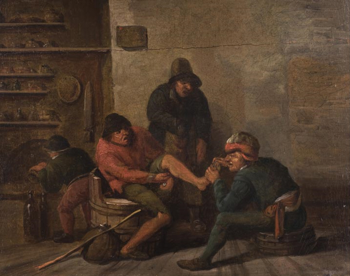 A patient with callus at the barber surgeon'slabel QS:Len,"A patient with callus at the barber surgeon's" label QS:Lde,"Der Hühneraugenpatient in der Baderstube"